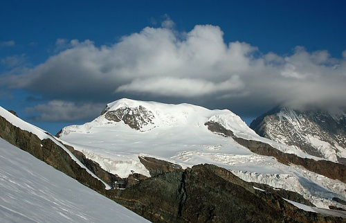 Alphubel (Valais, Switzerland).